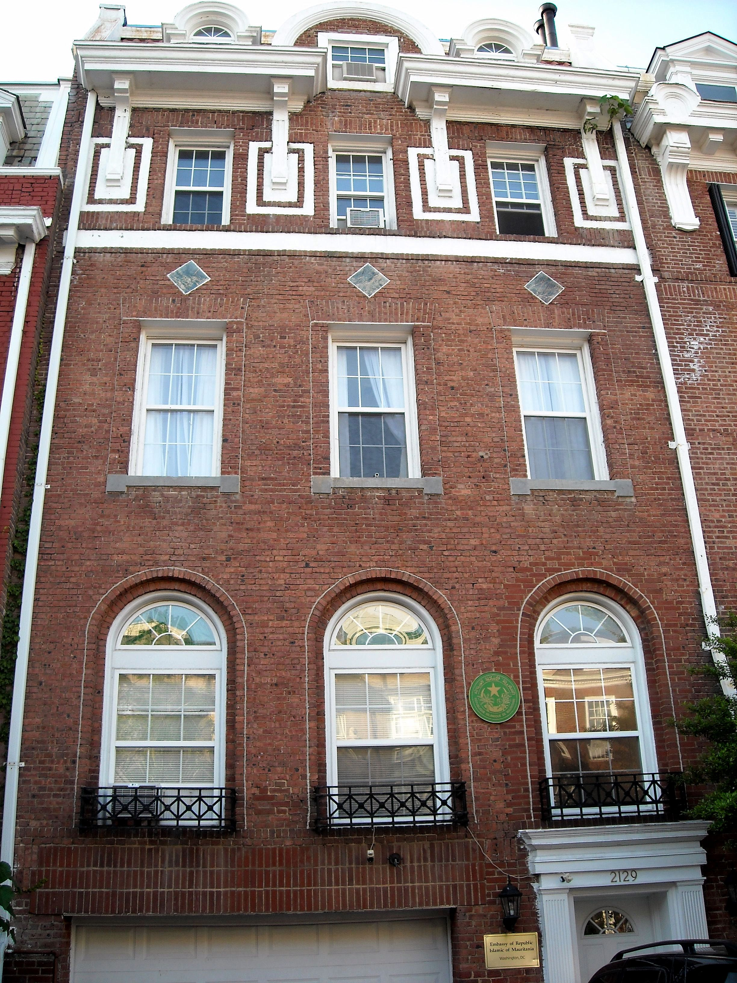 Embassy of Mauritania at 2129 Leroy Place, NW in the Kalorama neighborhood of Washington, D.C.